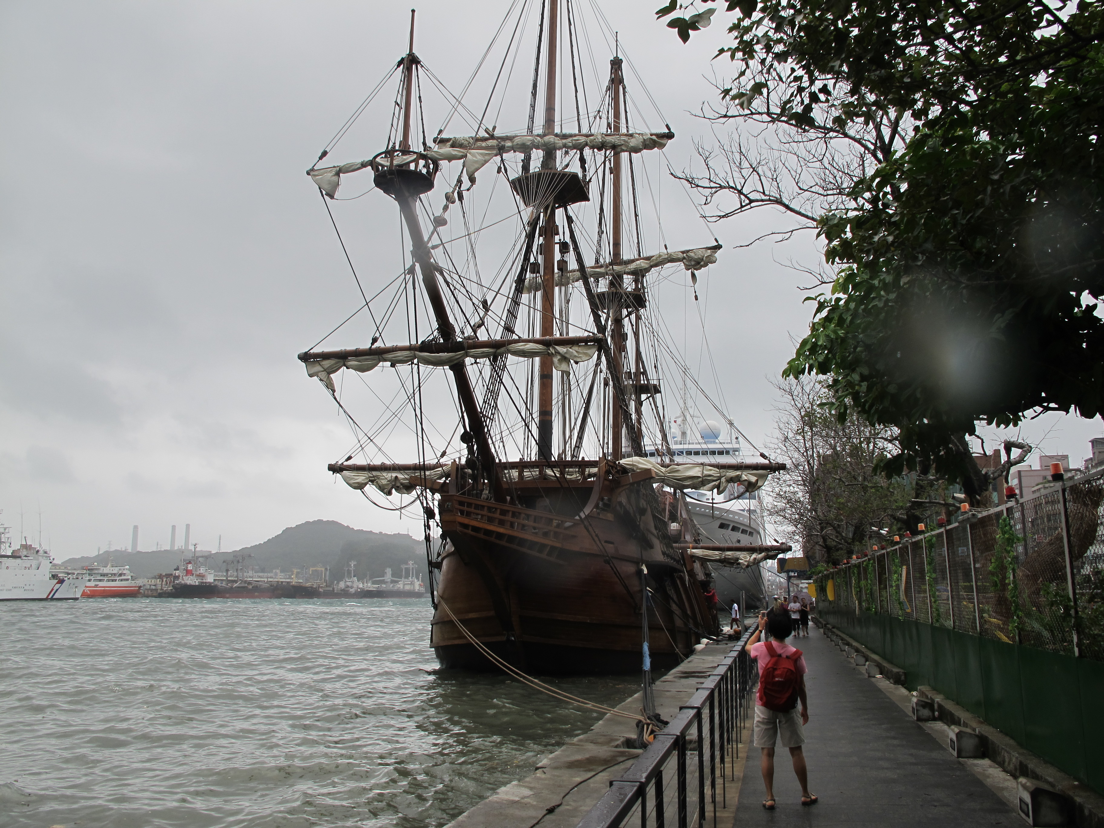 Galeón Andalucía in the Port of Keelung, Taiwan.